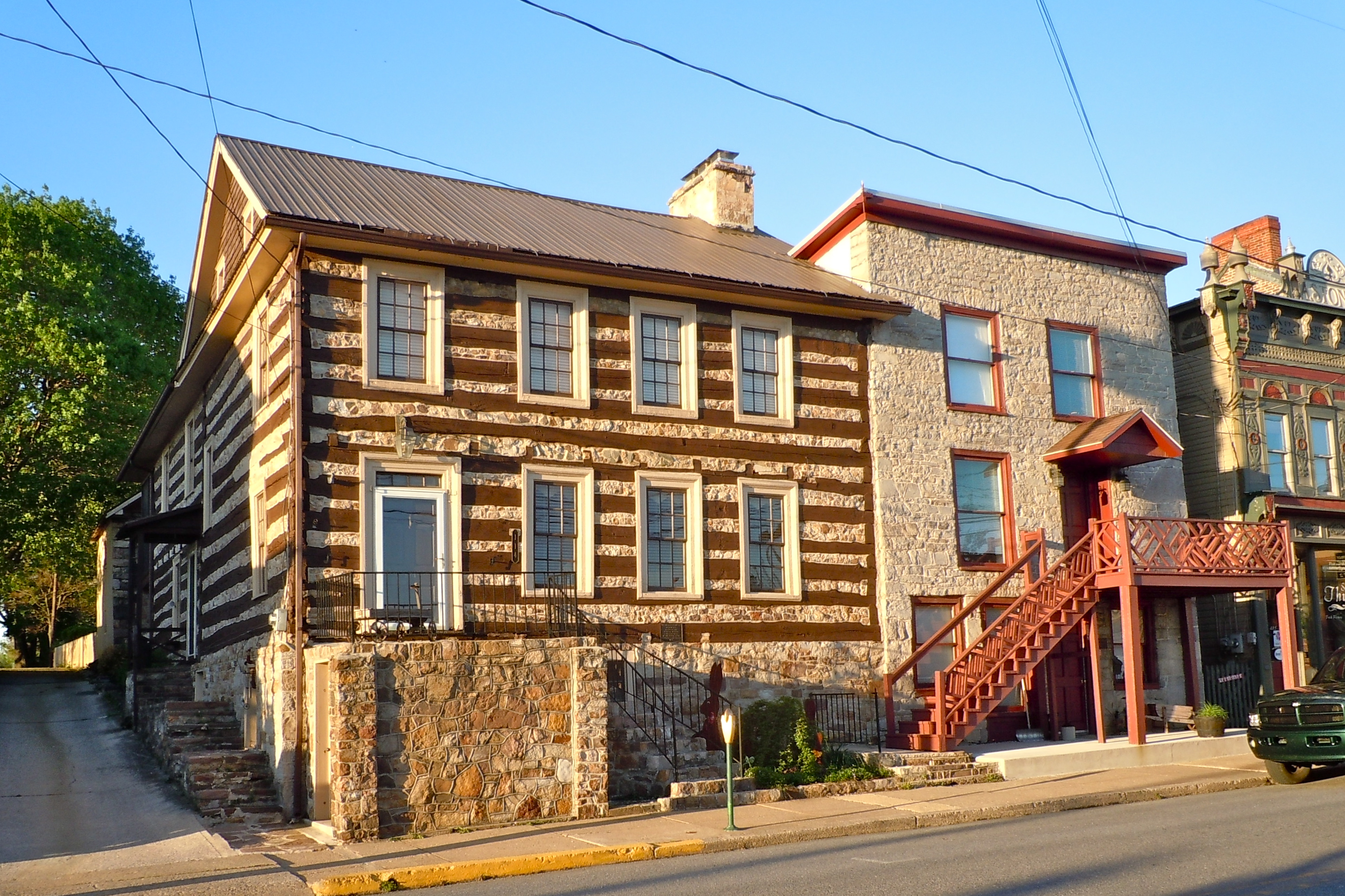 McConnell House on the NRHP since November 21, 1976. At 114 Lincoln Way, McConnellsburg, Fulton County, Pennsylvania